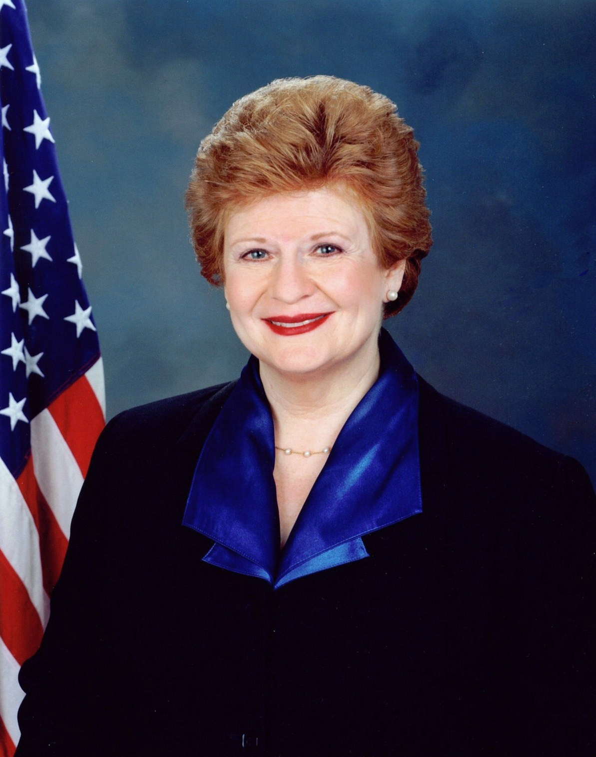 Debbie Stabenow, U.S. Senator from Michigan.